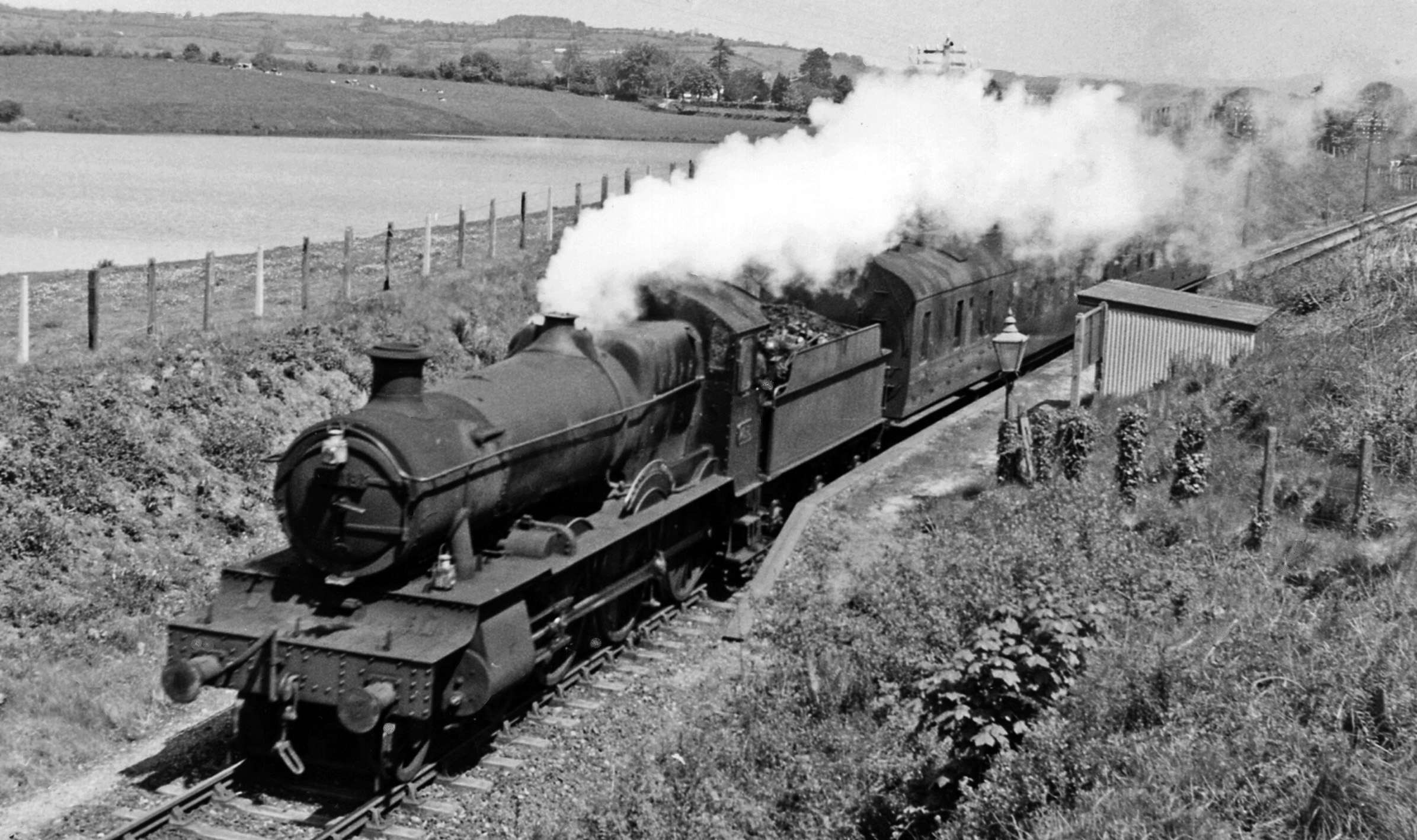 Aberystwyth - Carmarthen train at Pencarreg Halt. View NE, towards Aberystwyth; ex-GW Aberystwyth - Carmarthen line, closed by flooding 14/12/64, officially 22/2/65. The 11.55 from Aberystwyth is headed by 4-6-0 No. 7818 'Granville Manor' (built 1/39, withdrawn 1/65). No passengers, it would seem.